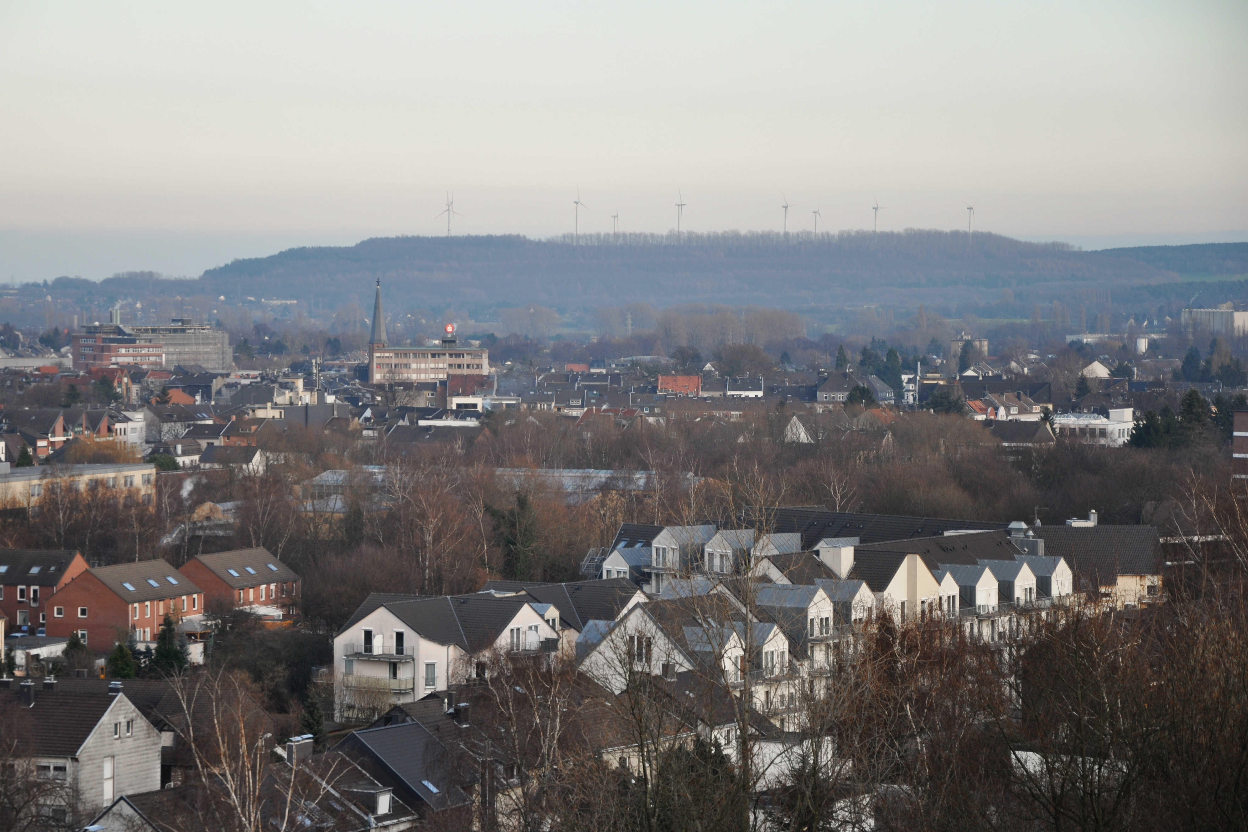 View from Hoher Stein, Ichenberg, towards Halde Nierchen, Eschweiler, in January 2014.